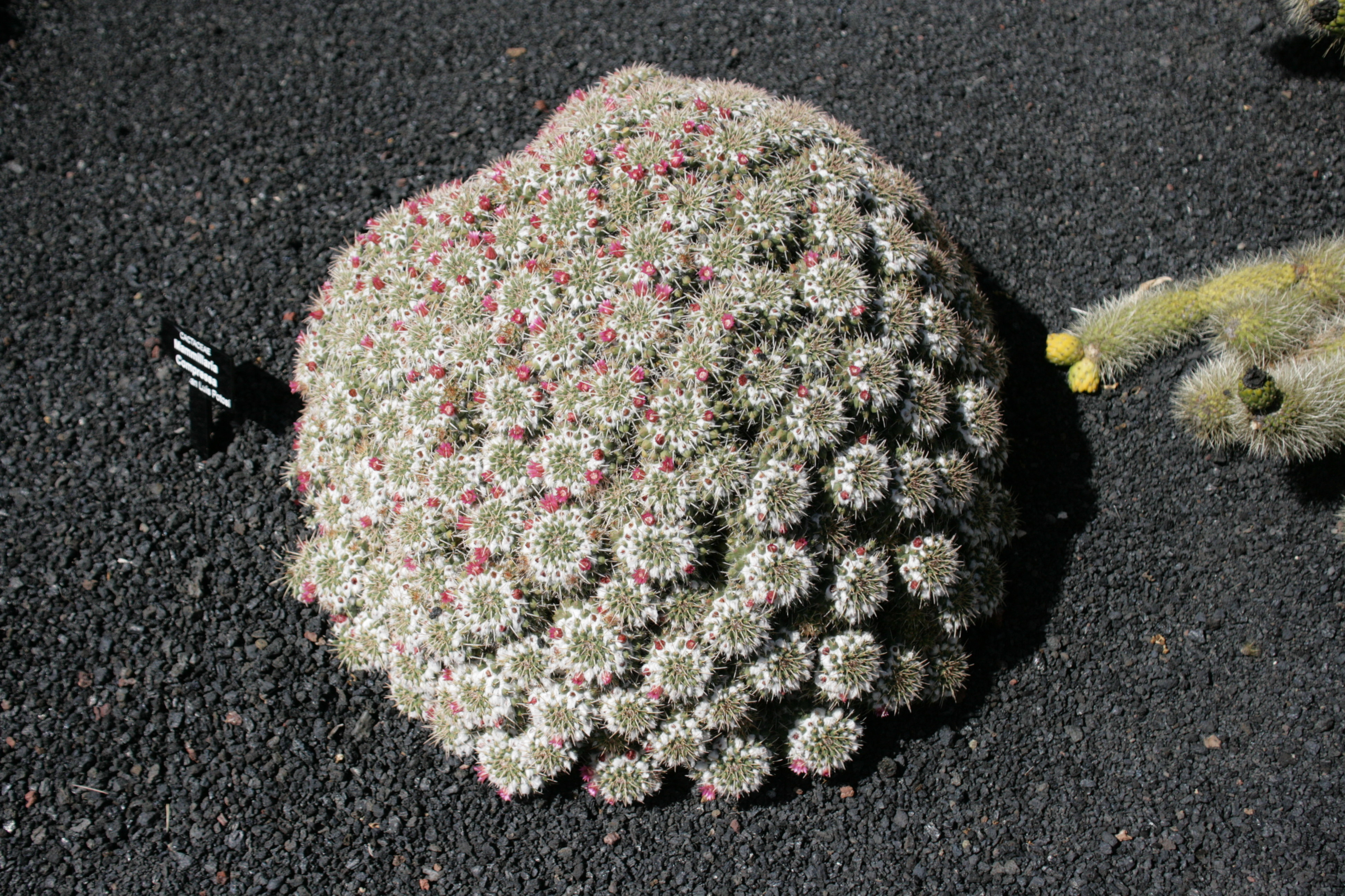 Mammillaria compressa grown in the Botanical Garden “Jardin de Cactus” in Guatiza, Teguise, Lanzarote, Canary Islands